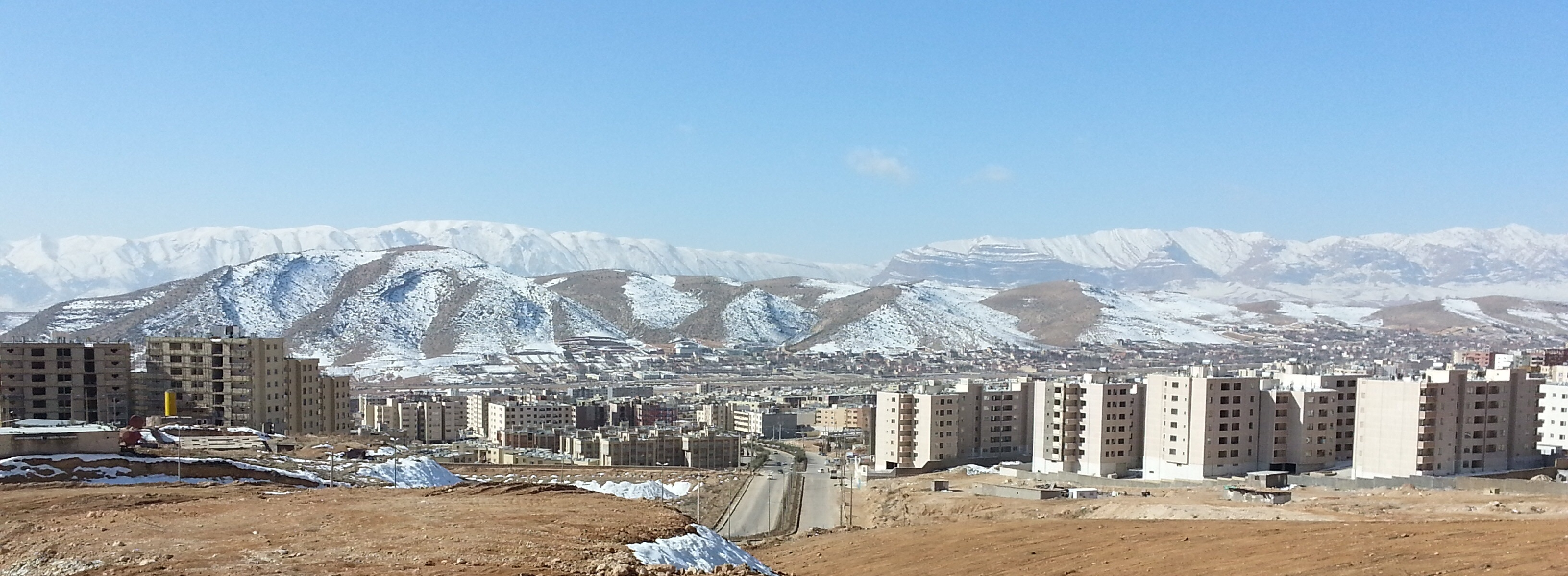 cut from [1]